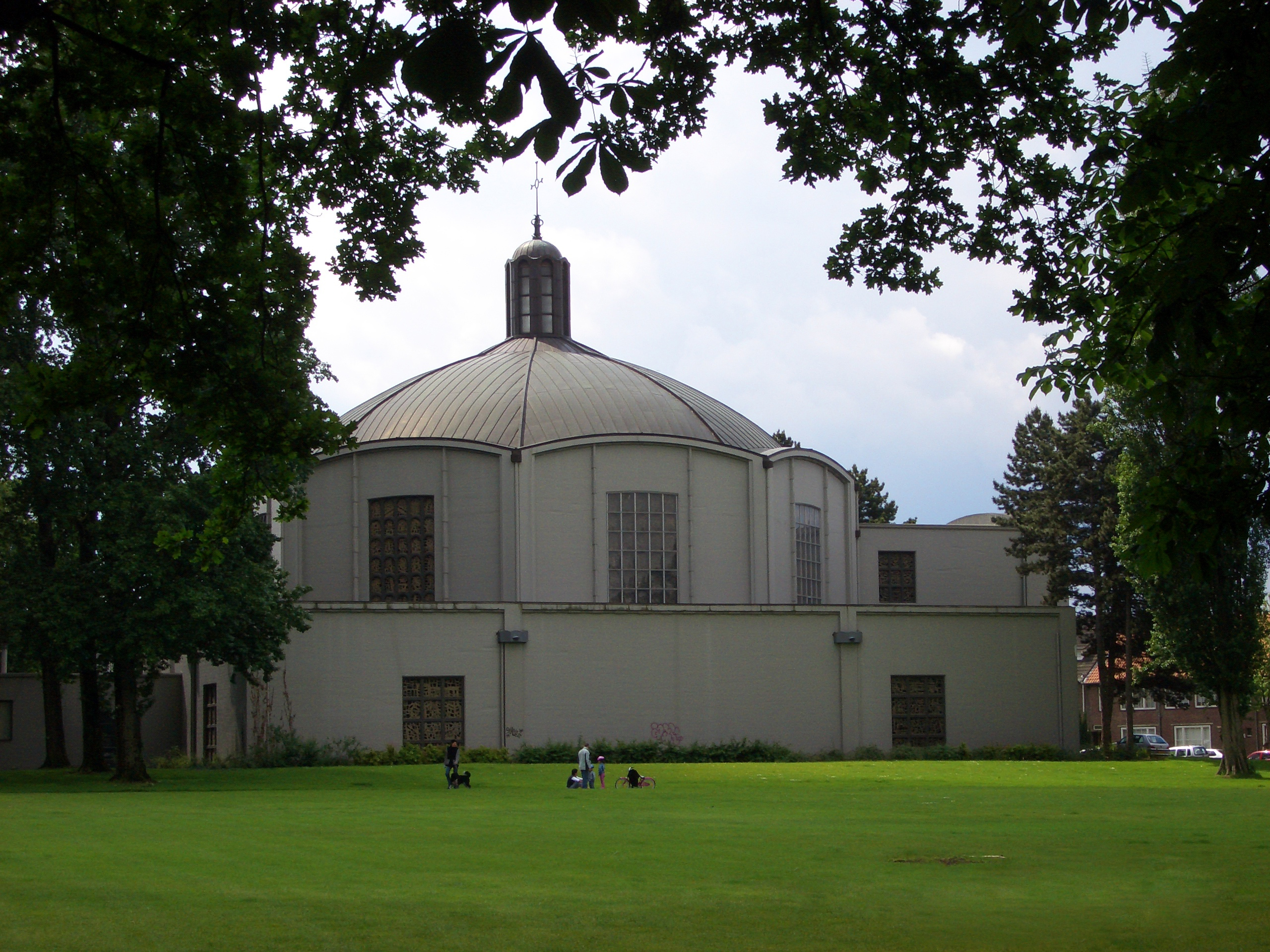 This picture of the church St. Anna (Peutz) was taken by me, Maarten van Wesel, in Heerlen